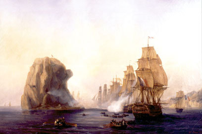 Catpure of the rock of the Diamond